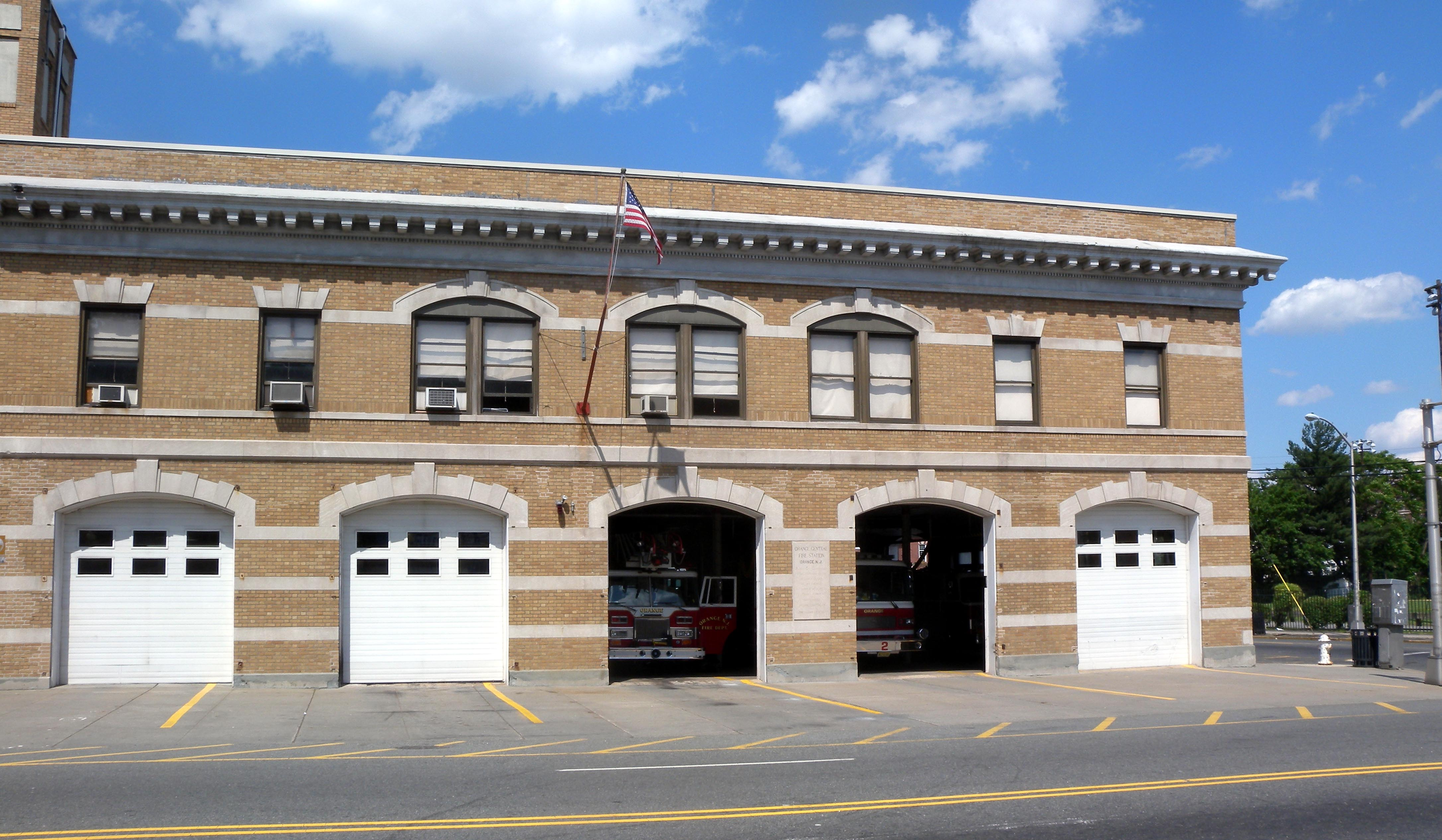 Looking northeast across Central Avenue at Orange, New Jersey firehouse on a sunny midday.